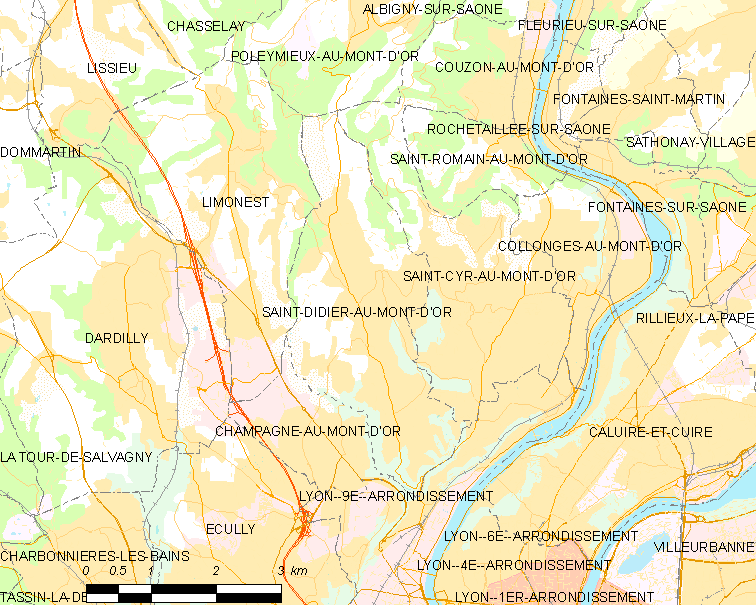 Map of French municipality